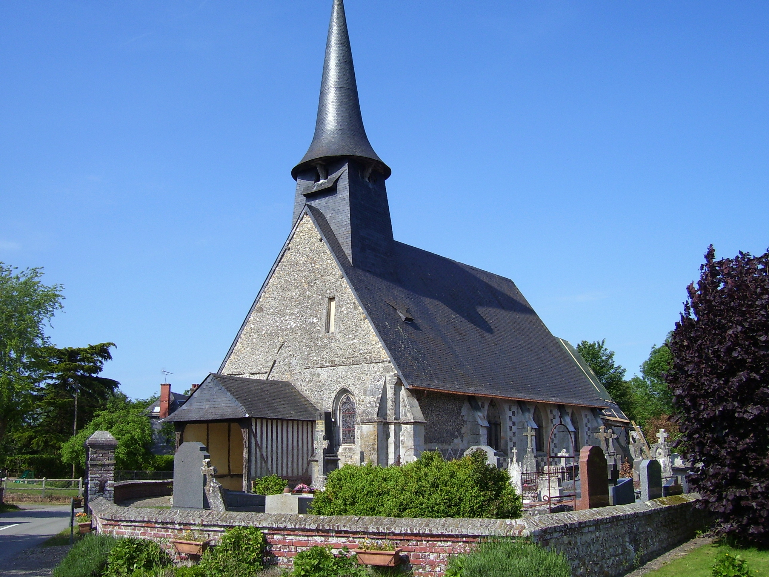 The church Saint-Pierre (saint Peter) in Épreville-en-Lieuvin (France) was built in the 12th century; partial reconstruction in the 16th century, sacristy 17th century, porch 19th century.